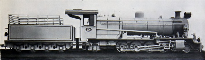 Vulcan Foundry works photo of Tanganyika Railway MK class locomotive no. 206 (side view).